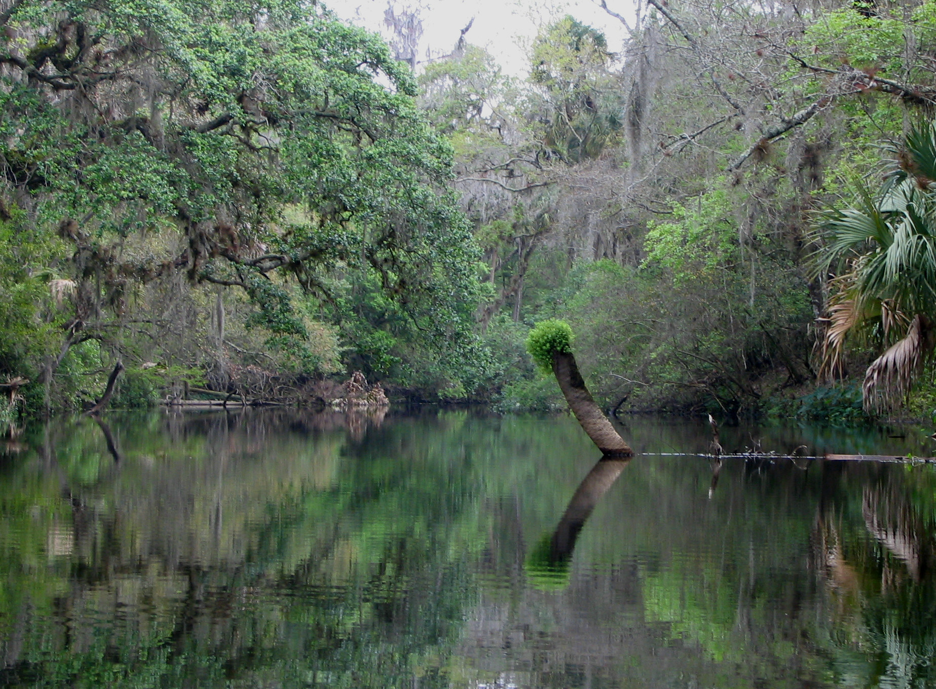 Kayaking on the Hillsborough River Florida, USA